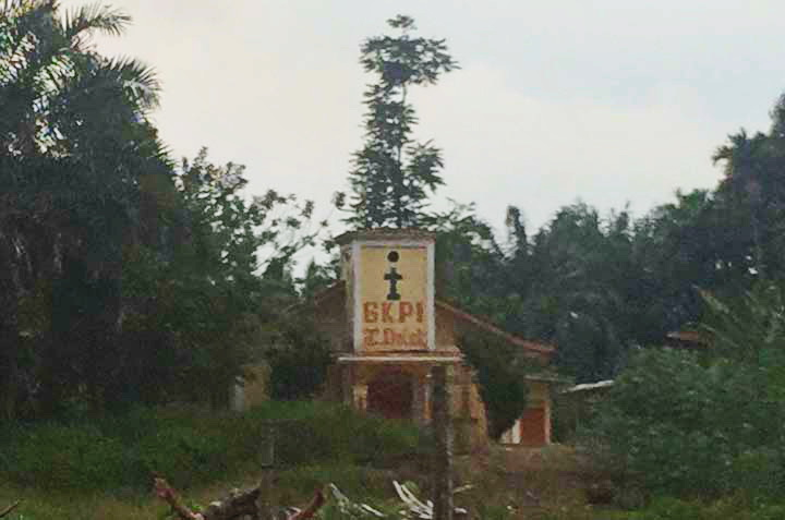 GKPI Tiga Dolok, Res. Balata Church in Tiga Dolok, Dolok Panribuan, Simalungun